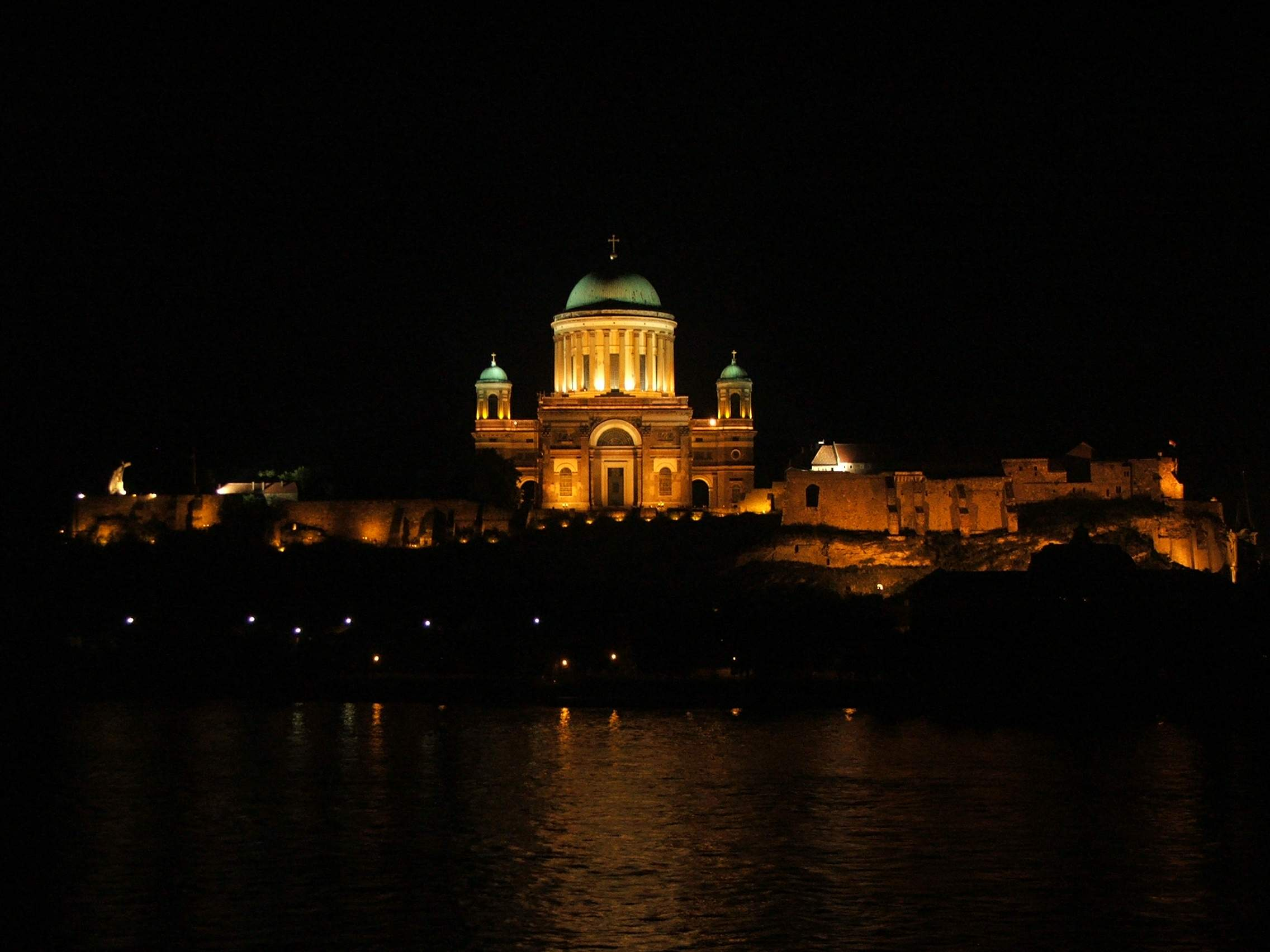 The royal castle and the cathedral in Esztergom in 2005.